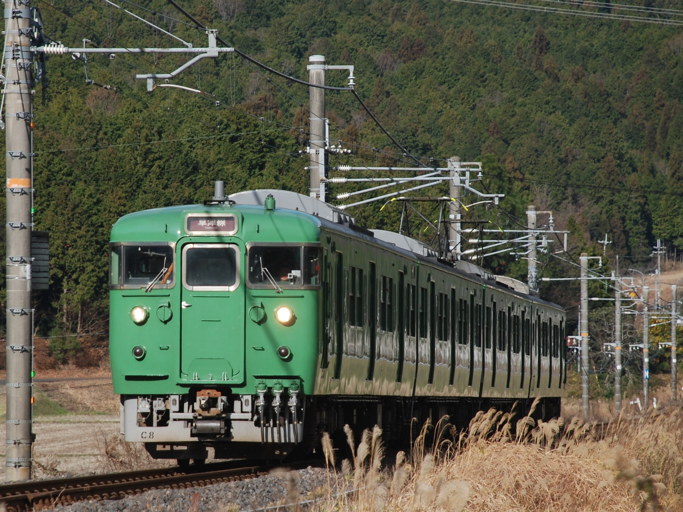 JR West series 113 5700 subset running between Mikumo and Kibukawa